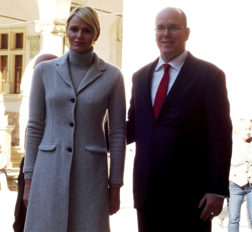 The Prince and Princess of Monaco visiting Cracow.